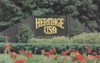 Entrance sign at the former Heritage USA complex